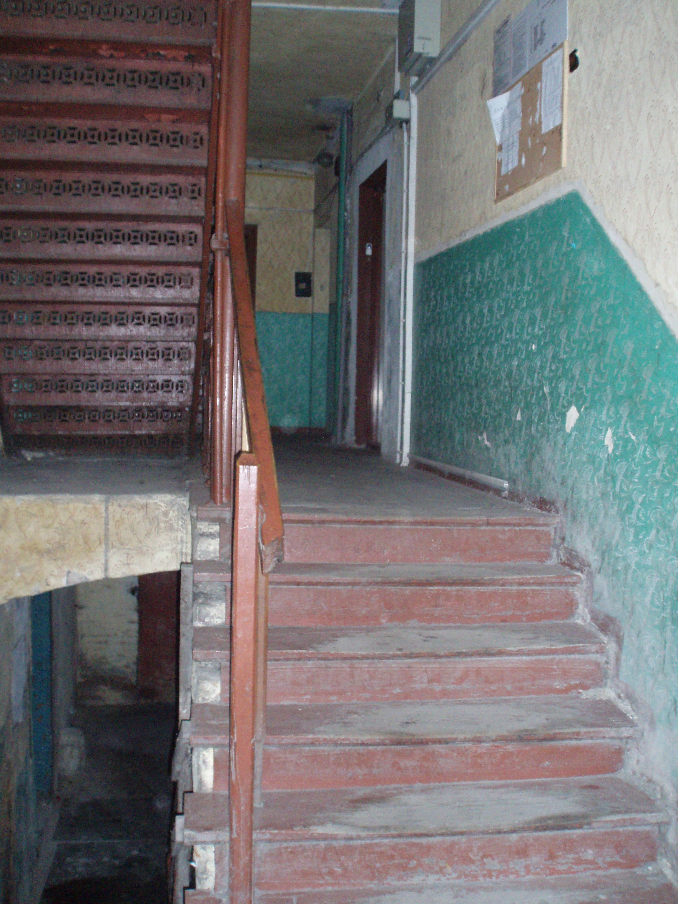 Entrance to the workers hous - familok - from XIX century, Chorzów, Hajducka street, Upper Silesia, Poland